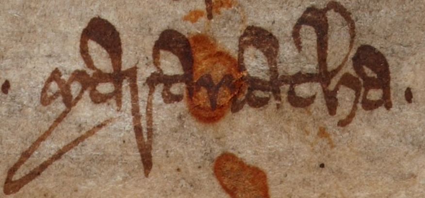 maranatha; from the King Alfred’s Old English Version of Augustine’s Soliloquies. (see transcript at the Website of the Faculty of Creative and Critical Studies, University of British Columbia)